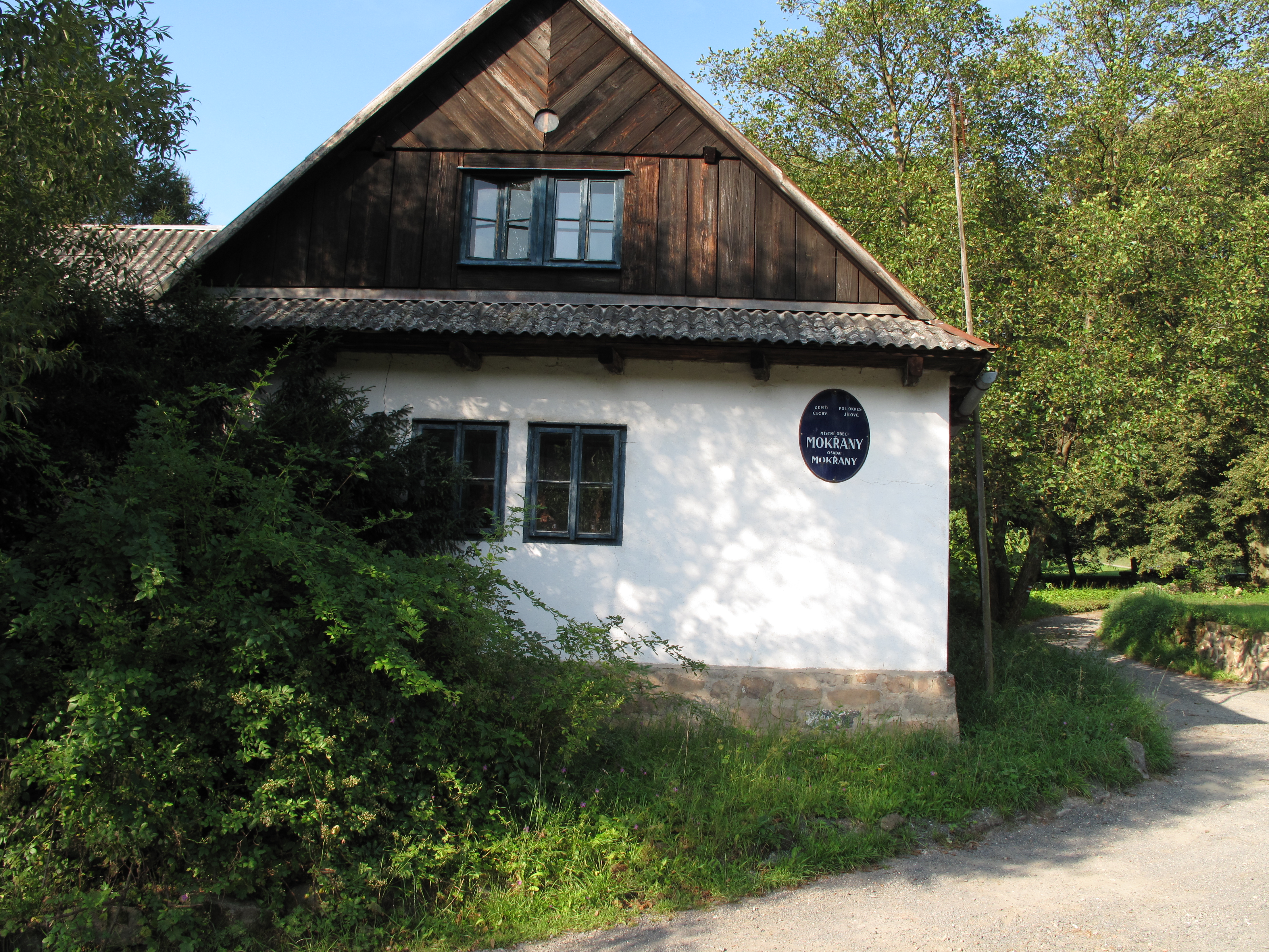 Gable in Mokřany village (Velké Popovice municipality, Prague-East District, Czech Republic.